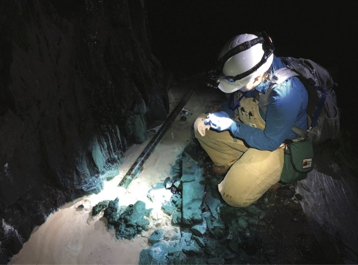 Microbial life has been sampled in deep mines.